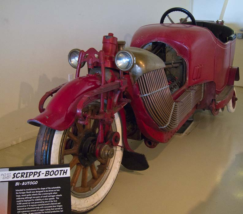 1913 Scripps-Booth prototype motorcycle, the "Bi-Autogo," on display at the Owls Head Transportation Museum in Owls Head, Maine.